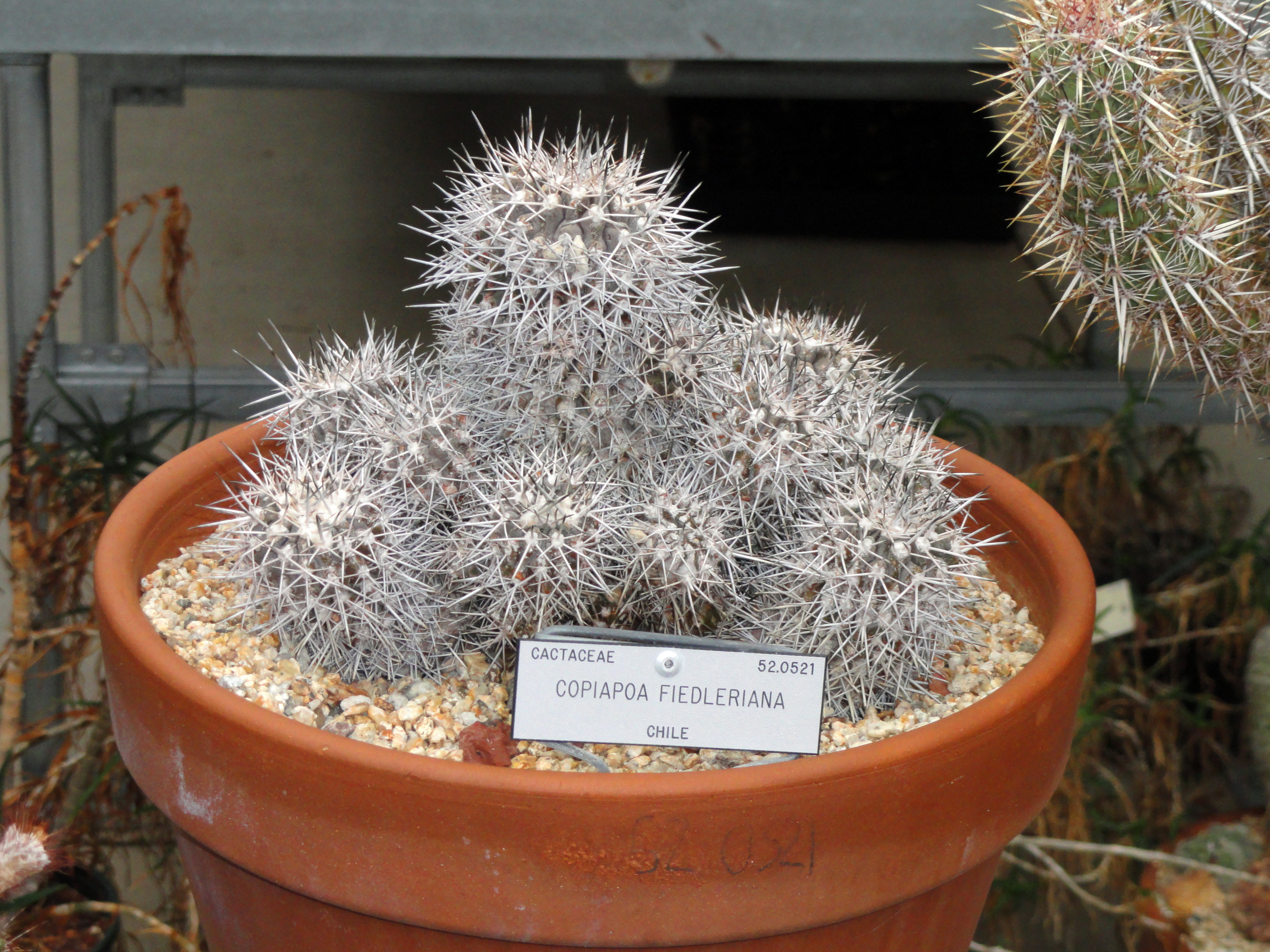 Copiapoa fiedleriana specimen in the University of California Botanical Garden, Berkeley, California, USA.